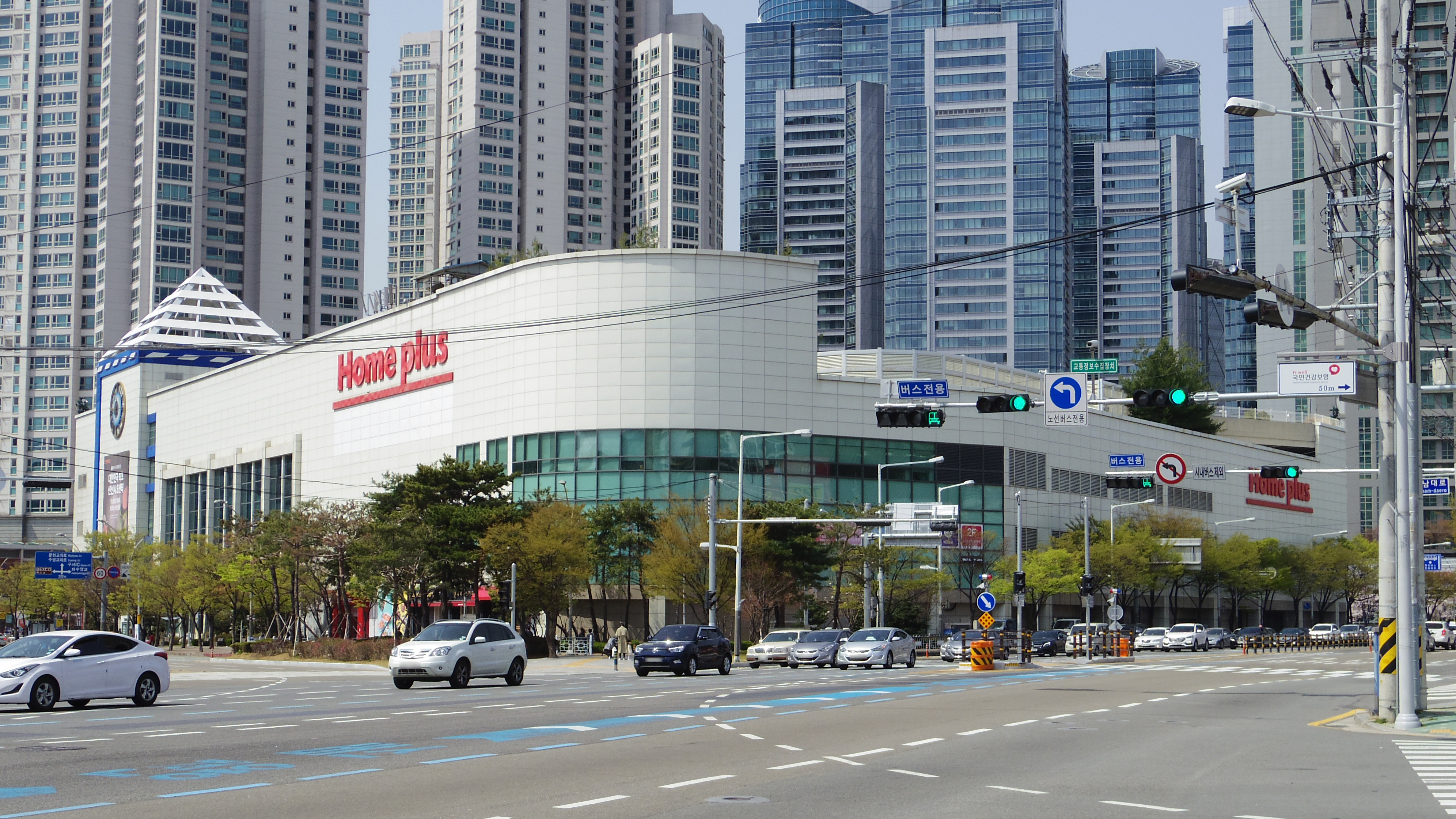 The Homeplus Centum city branch